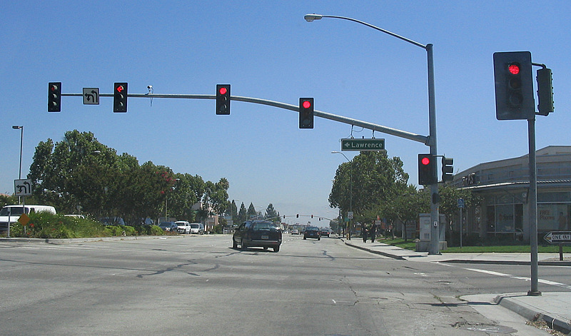 Traffic lights at the intersection of Stevens Creek Boulevard with Lawrence Expressway and Interstate 280.